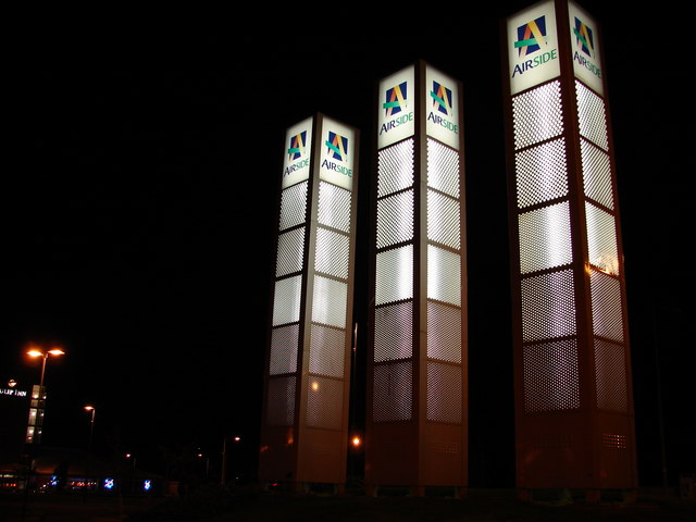 Airside Illuminated Signs. I always wondered where you were if you weren't 'airside'. As this sign is outside the airport, I'm still not sure!